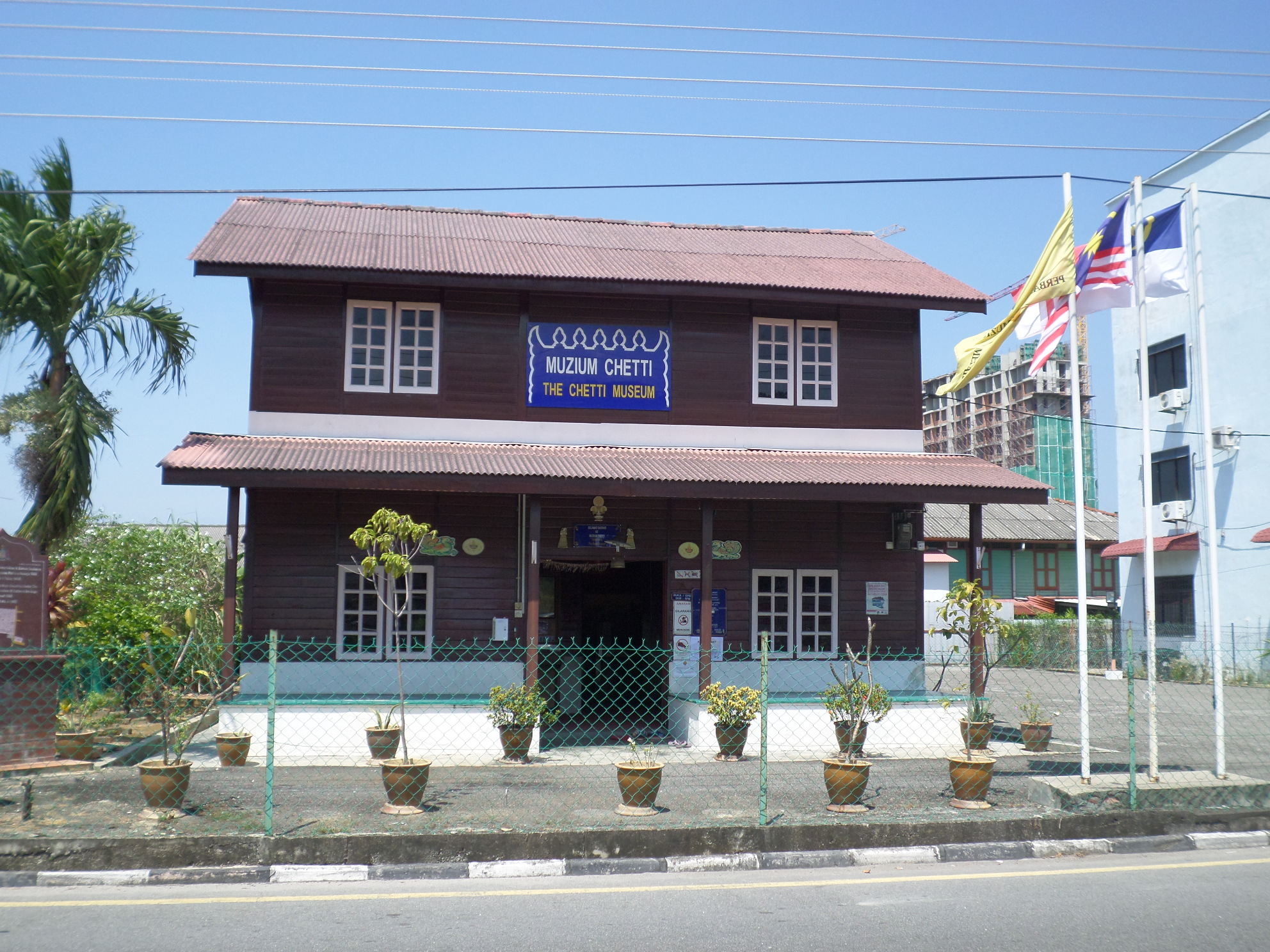 Chitty Museum, Melaka City, Melaka, MalaysiaBahasa Melayu: Muzium Chetti, Bandaraya Melaka, Melaka, Malaysia